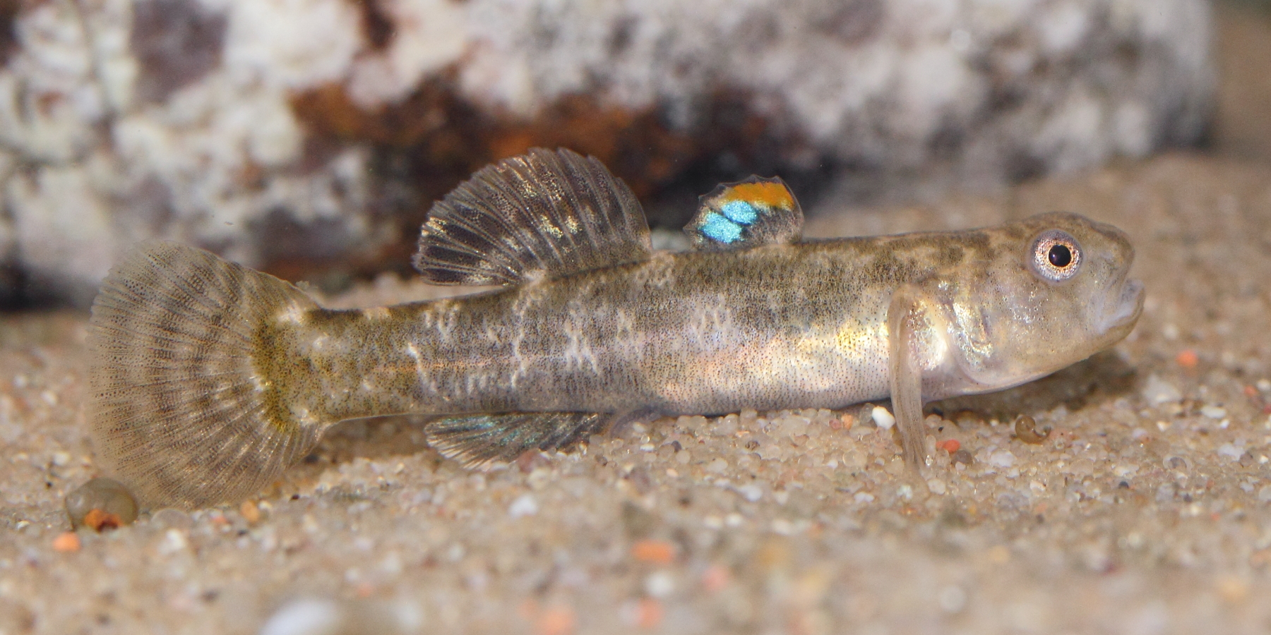 Tadpole Goby (Chlamydogobius ranunculus) from Northern Australia - male - in aquarium.